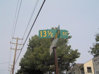 Unusually-numbered street sign in Patterson Township, Beaver County, Pennsylvania, United States.